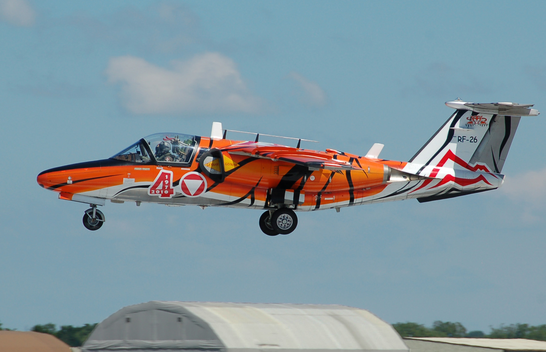 Saab 105 Oe military trainer (code RF-26) of the Austrian Air Force arrives for the 2014 Royal International Air Tattoo, Fairford, England. The colour scheme commemorates the 40th anniversary in 2010 of the first delivery of the Saab 105 to the Austrian Air Force.